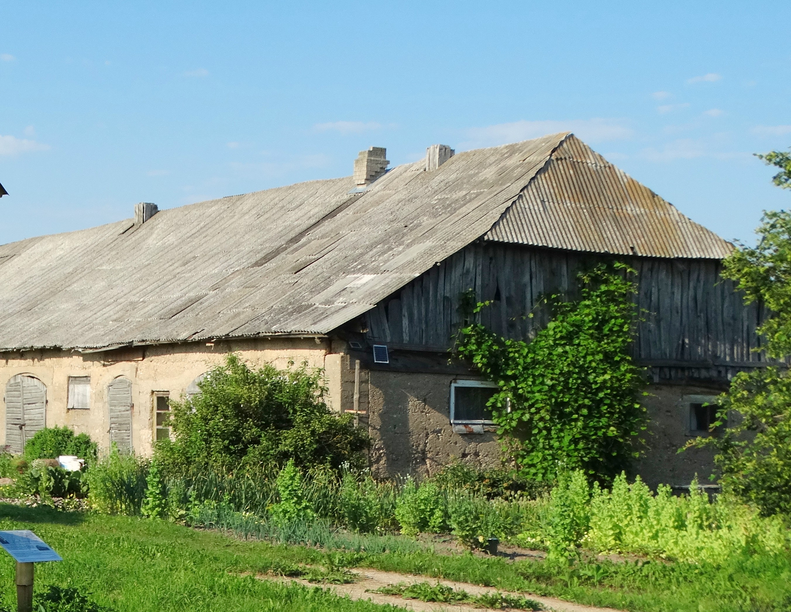 Fatherland home of Adelė Dirsytė, Aukštieji Kapliai, Kėdainiai district, Lithuania